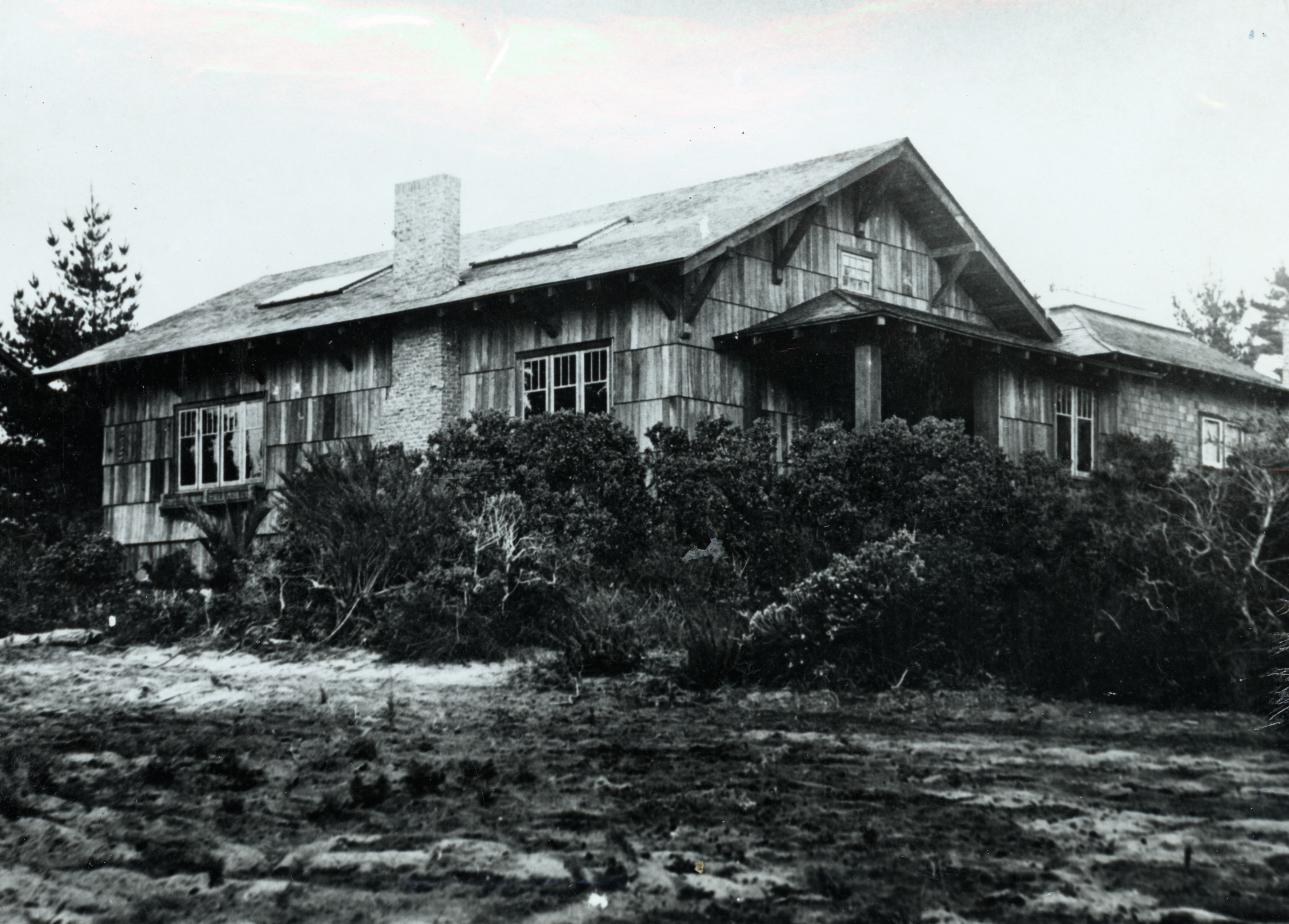 Exterior of the historic Carmel Arts & Crafts Clubhouse, in Carmel-by-the-Sea, California, circa 1907.